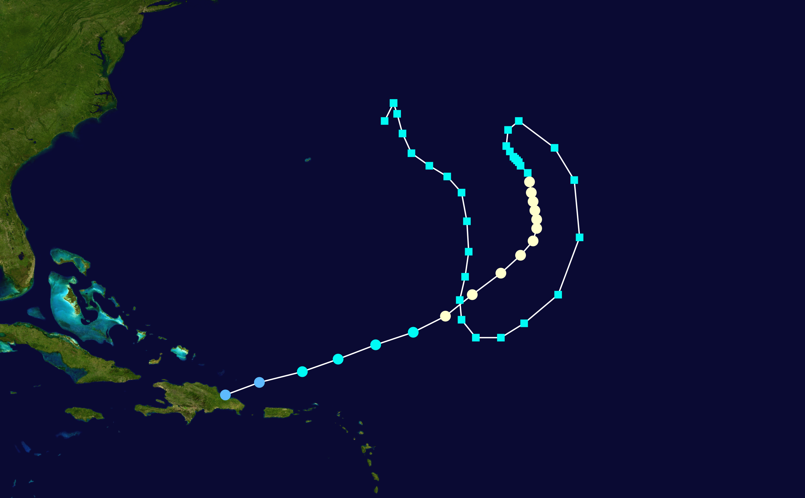 Hurricane Lili (1984) track. Uses the color scheme from the Saffir-Simpson Hurricane Scale.